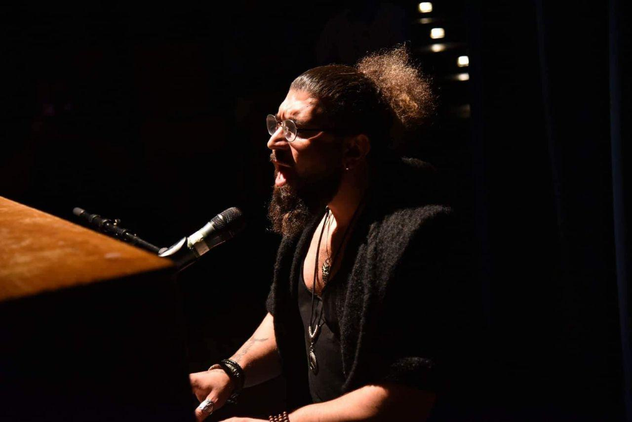 Shekib Mosadeq In Sweden